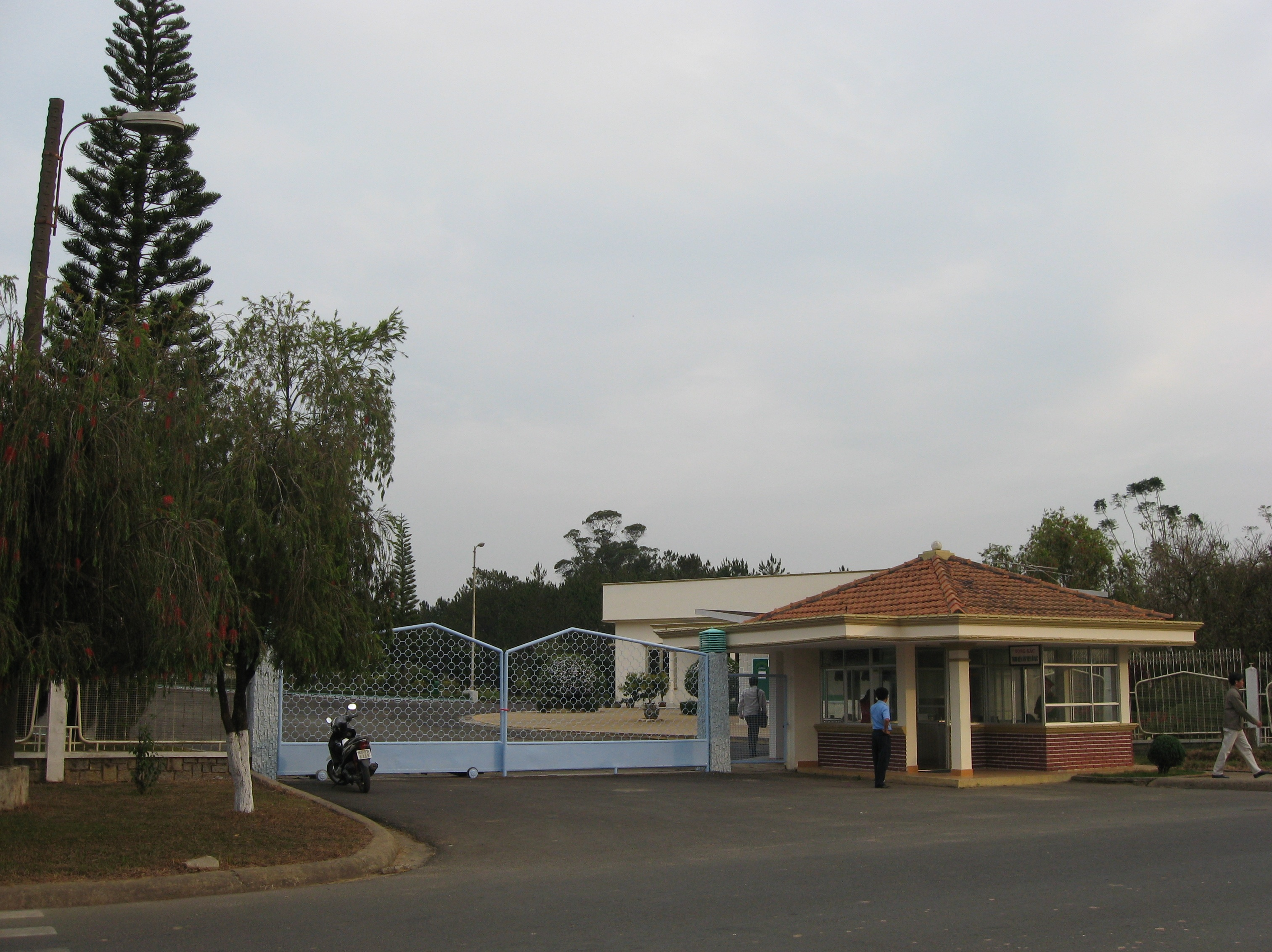 Da Lat Nuclear Research Institute